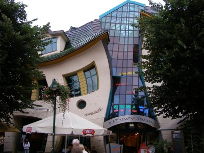 The Curved House in Sopot, Poland